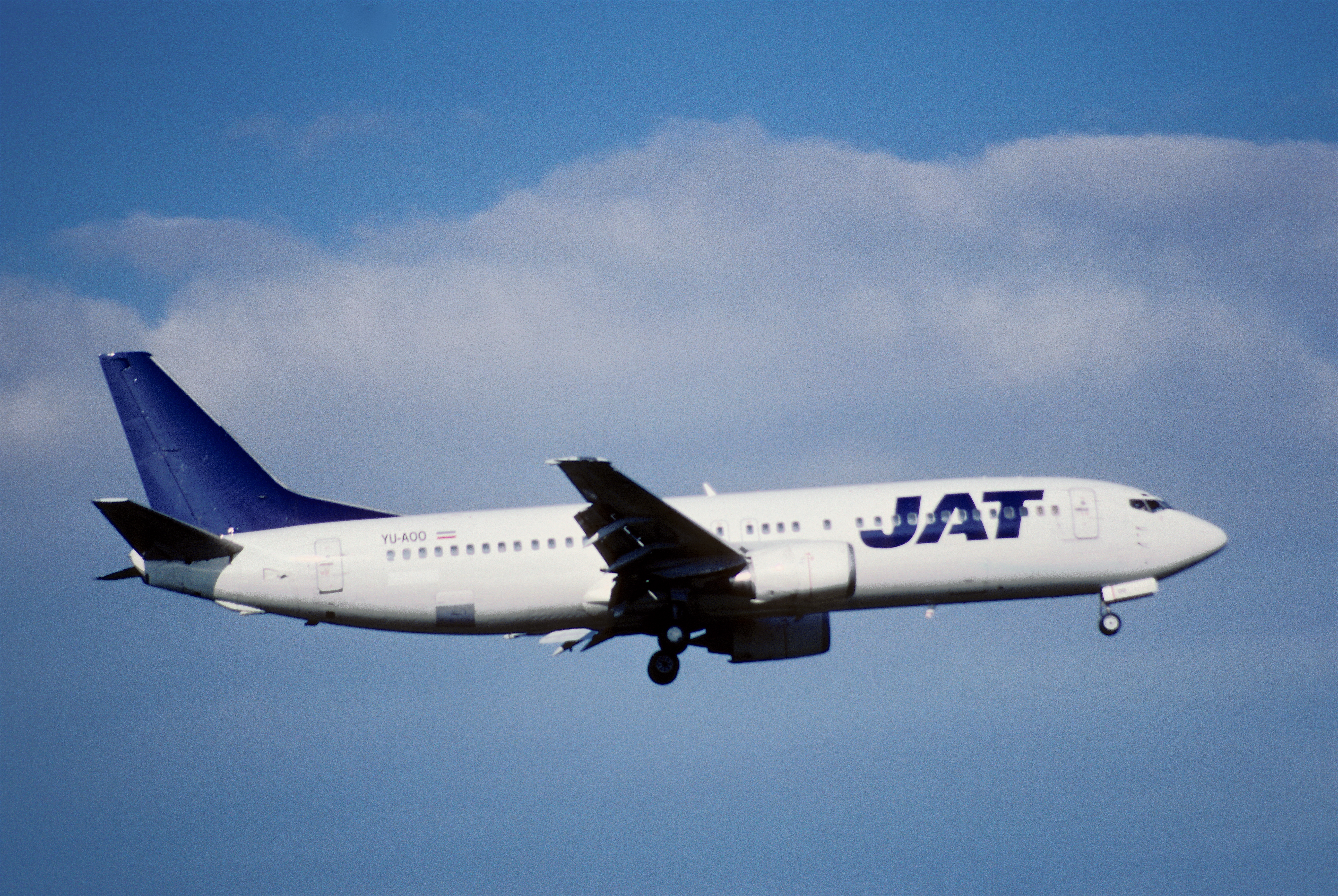 This Boeing 737-4Q8 took its first flight on January 11, 1989...(c/n 24070/ 1665) 26/01/1989 Dan-Air London G-BNNL 07/11/1992 British Airways G-BNNL 19/03/1995 GB Airways G-BNNL 06/04/2001 National Jets Italy G-BNNL 26/02/2002 WFBN N112TR 04/03/2002 Air One EI-CXH 11/12/2002 JAT Airways YU-AOO 01/12/2005 AdamAir PK-KKW, plane destroyed on January 1, 2007 at Sulawesi, Indonesia, whilst operating as Flight 574